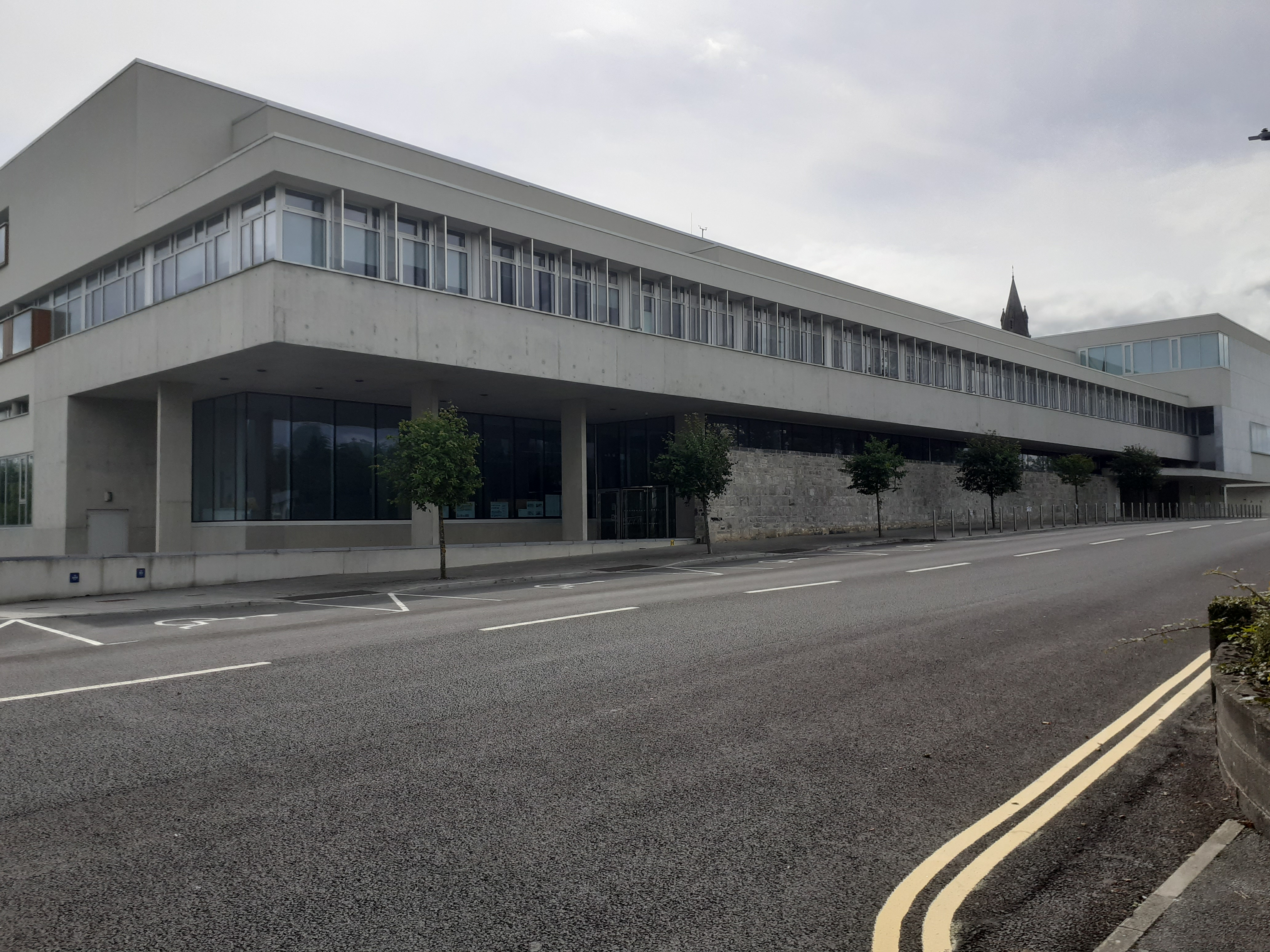 Roscommon County Council, Roscommon Town.